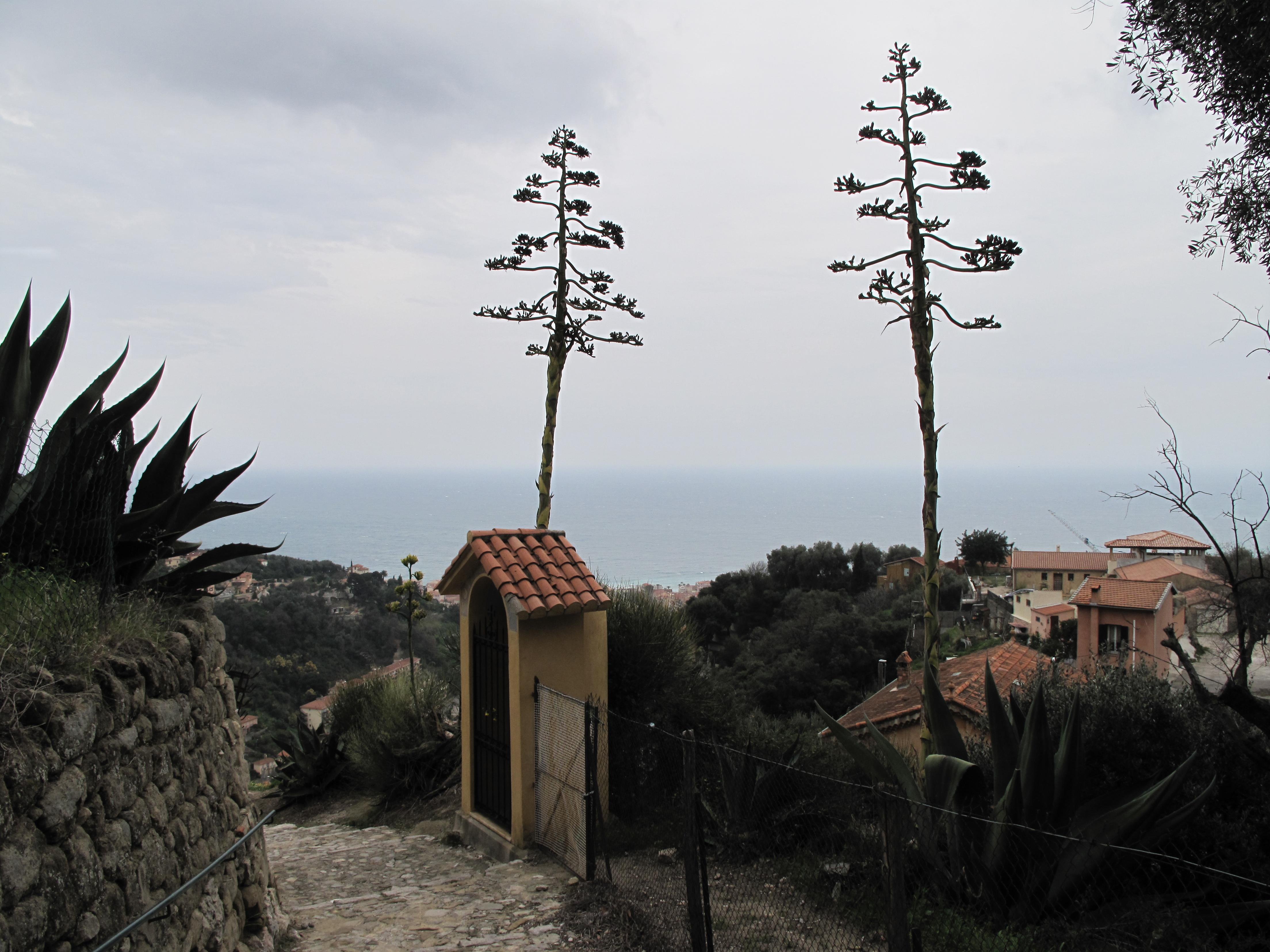 Stations of the Cross on the Rosary path for access to the monastery of the Annonciade (Alpes-Maritimes, France)